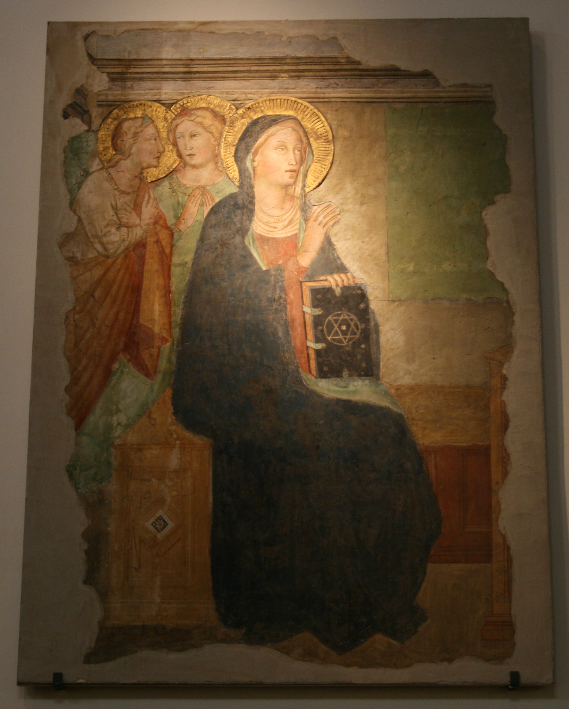 Fresco called Holy Mary of the Book, formerly set in San Ludovico Church